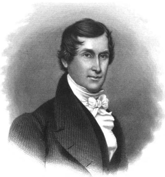 Engraved portrait of Canvass White, as published in Lives and Works of Civil and Military Engineers of America, by Charles B. Stuart. New York: D. Van Nostrand, 1871.